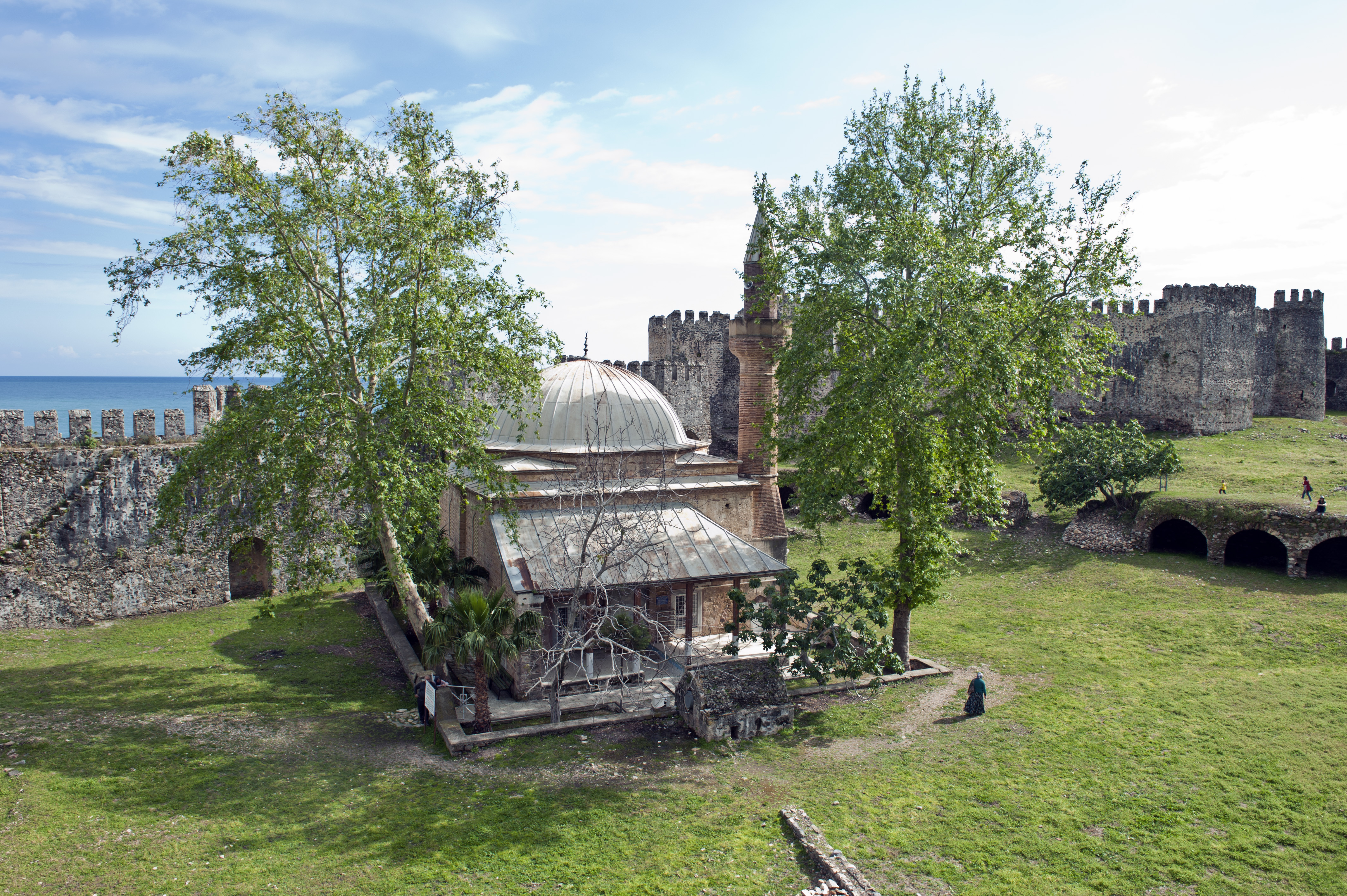 A Turkish woman walks by the mosque nestled within Mamure Castle April 20, 2013, at Anamur, Turkey. Approximately 130 miles west of Mersin, Mamure was designed to fend off seafaring pirates.